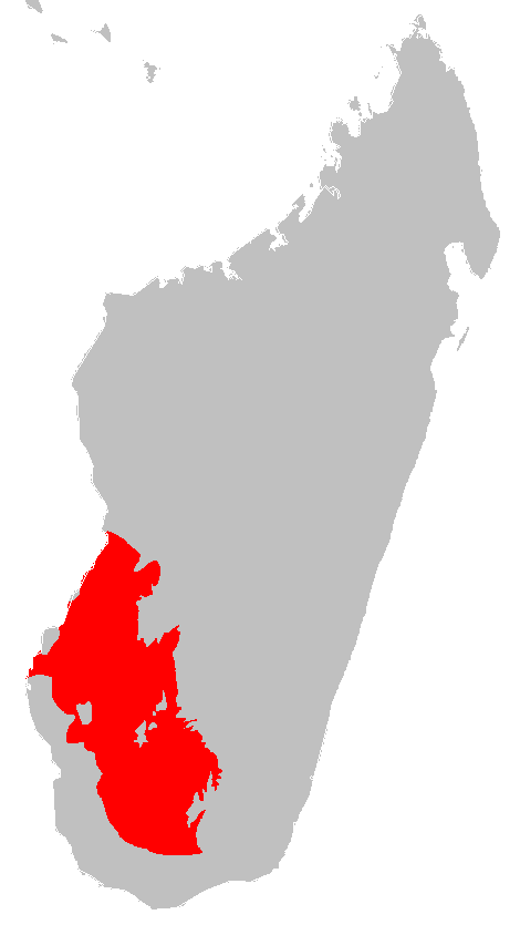 Madagascar succulent woodlands ecoregion map